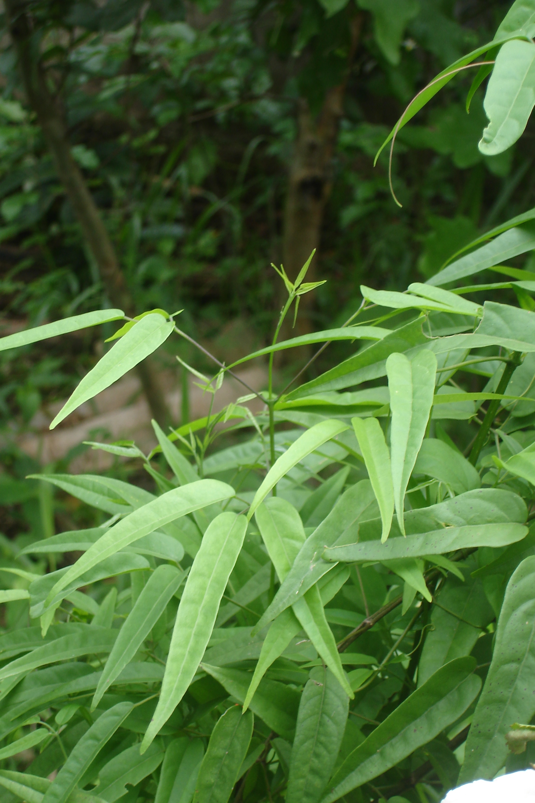 This is a photo taken from a crajiru, one of the plants that can be found at Bio, a space for research of medicinal plants at Uberaba, Minas Gerais. This space is part of a project known as Gaia Project, which is part of the AUM Cristo Rei.